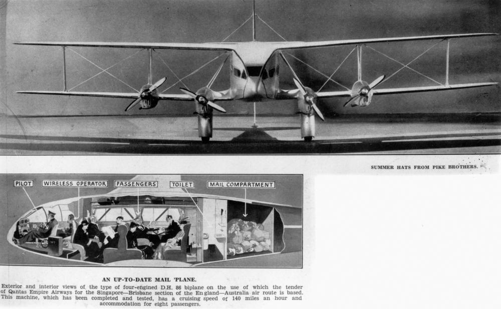 Cross section of an up-to-date mail plane, 1934 Exterior and interior views of the four-engined DH 86 biplane used by Qantas Empire Airways for the Singapore-Brisbane section of the England-Australia air route. This machine has a cruising speed of 140 miles an hour and accommodation for eight passengers.